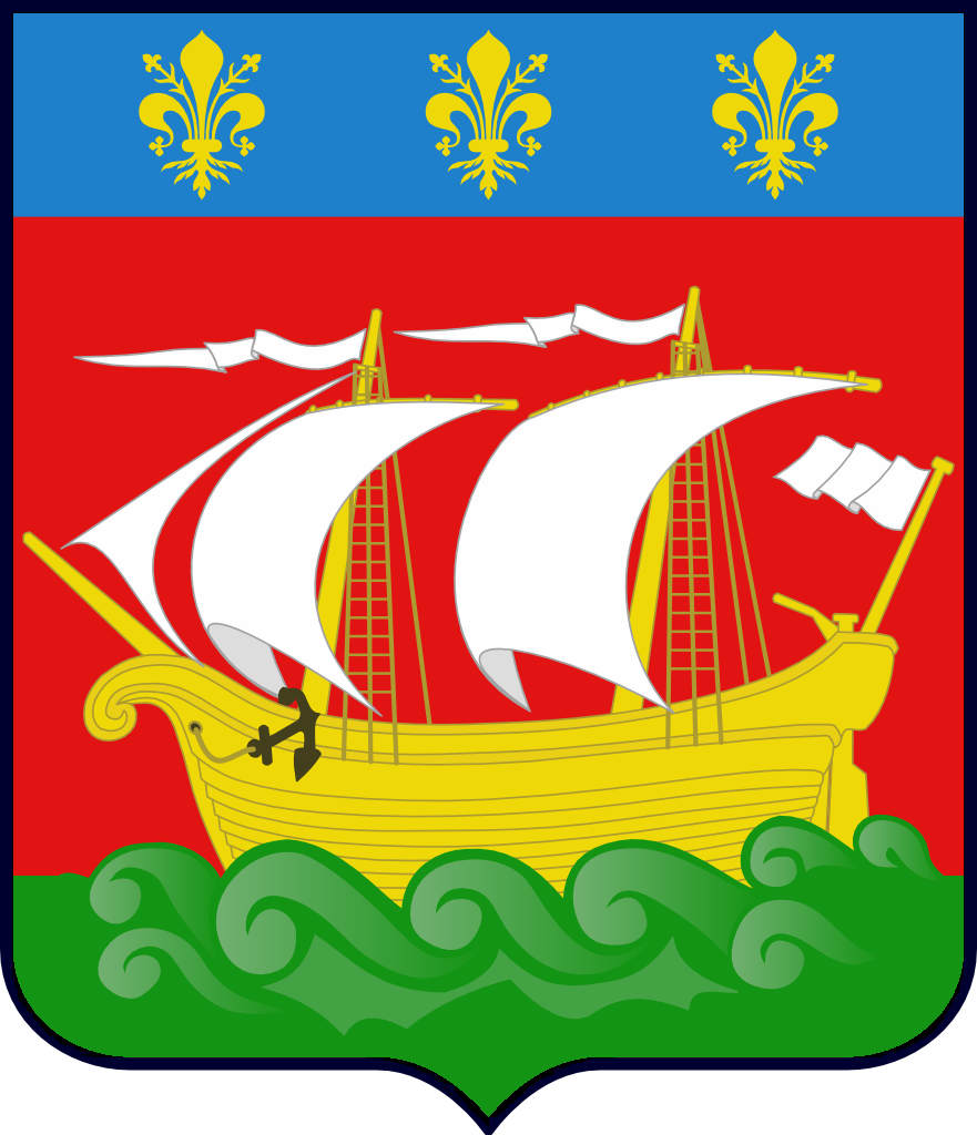 This picture shows the blazon from the coat of arms of La Rochelle, used since 1355, as it was described by Victor Adolphe Malte-Brun in La France illustrée (1884).